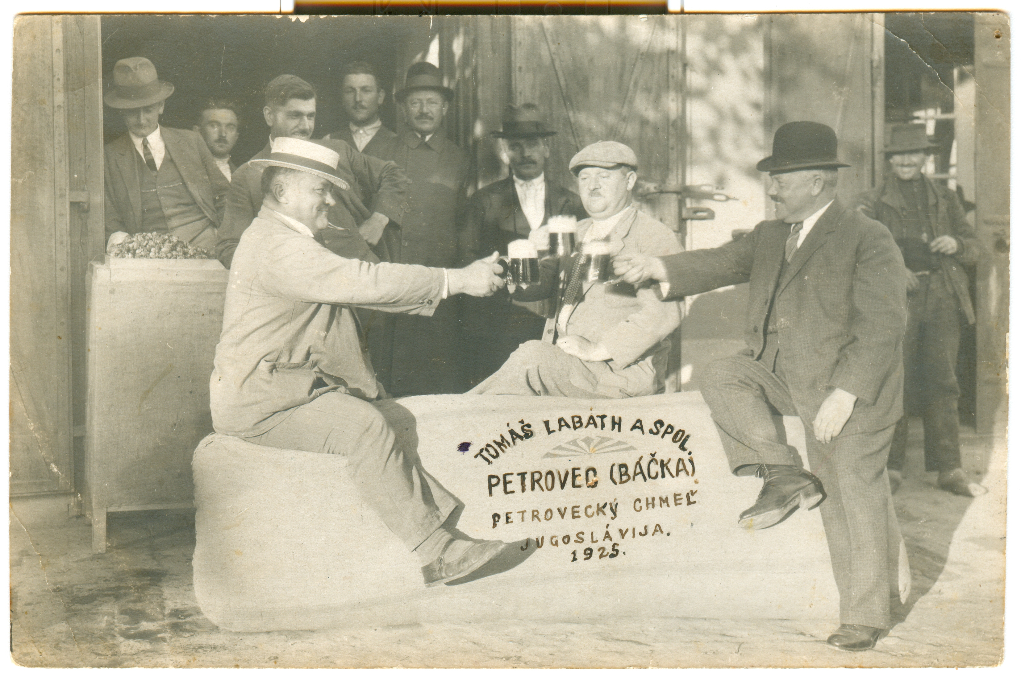 Photo of the entrepreneur Thomas Labath. Museum of vojvodinian Slovaks, inventory numer 1654.